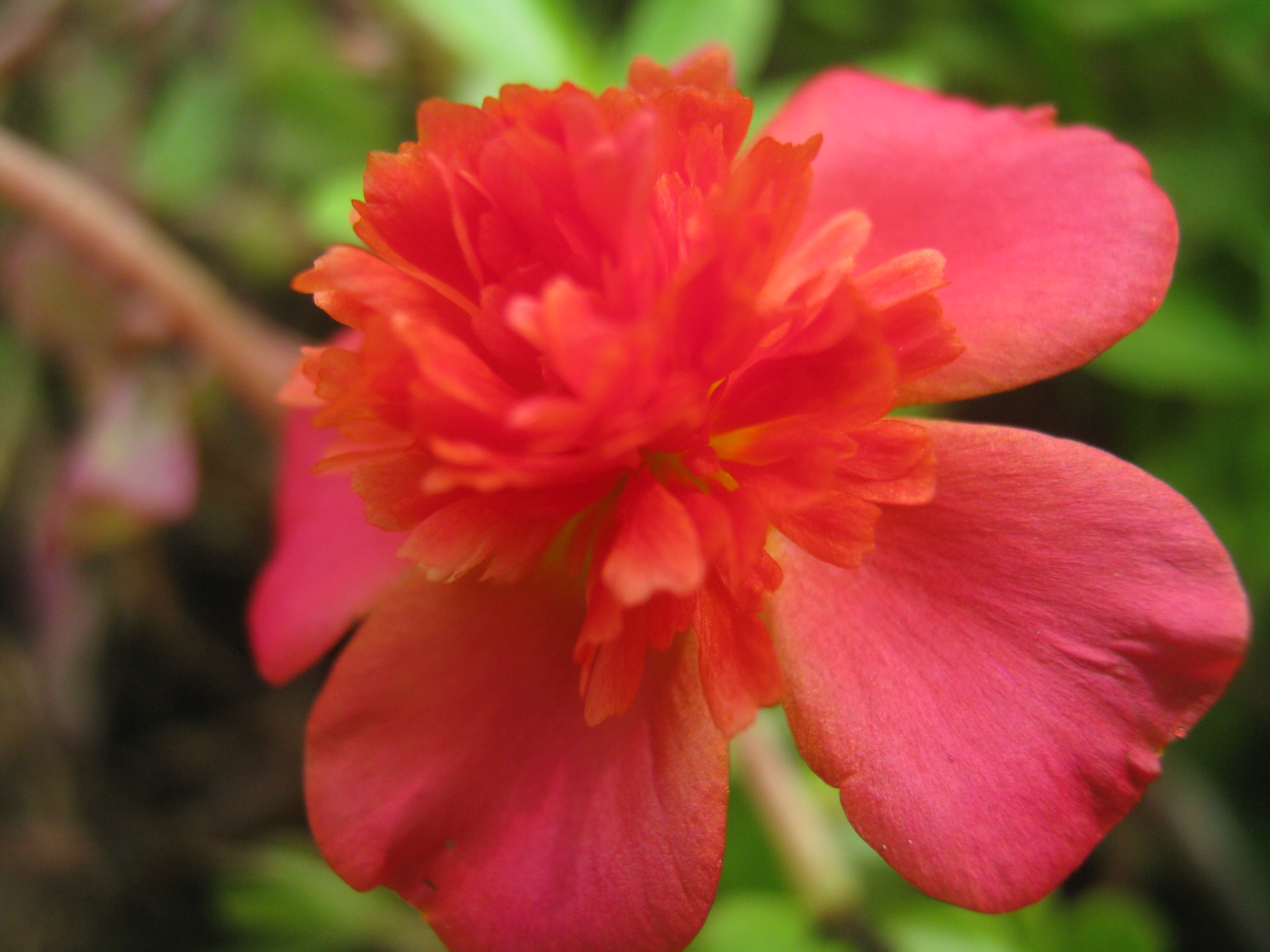 This is a uncommon flower of the plant Portulaca oleracea